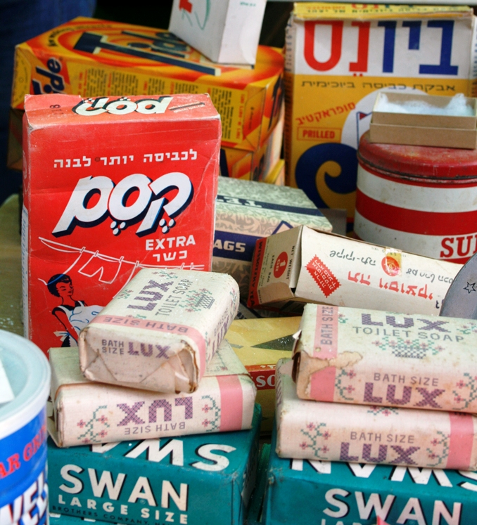 laundry soaps in Jaffa flea market